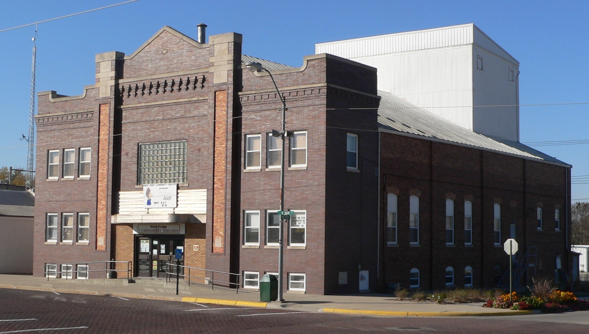 West Point City Auditorium in West Point, Nebraska; seen from the northeast. The building was constructed in 1911, and is listed in the National Register of Historic Places.